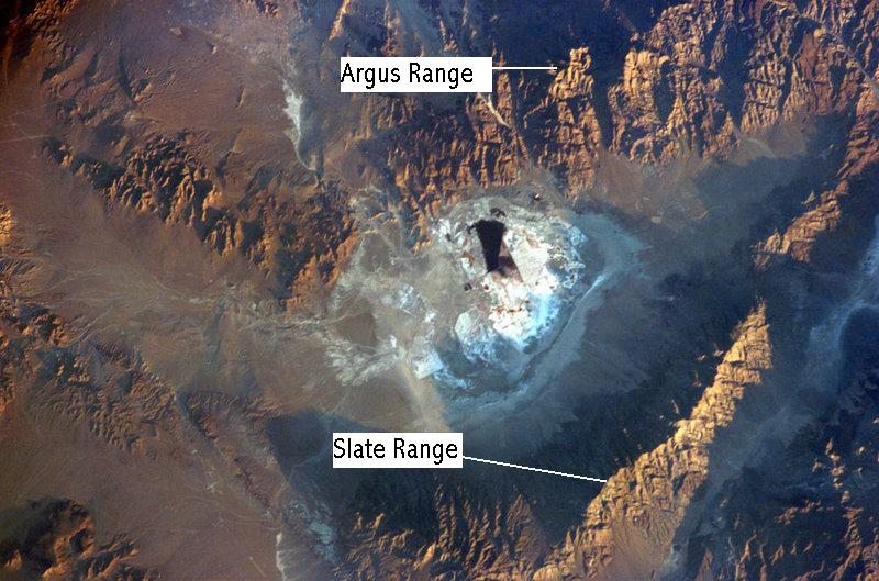 Photo credit NASA - photo shows Searles Dry Lake as well as the Argus and Slate Ranges in the Mojave Desert of California.